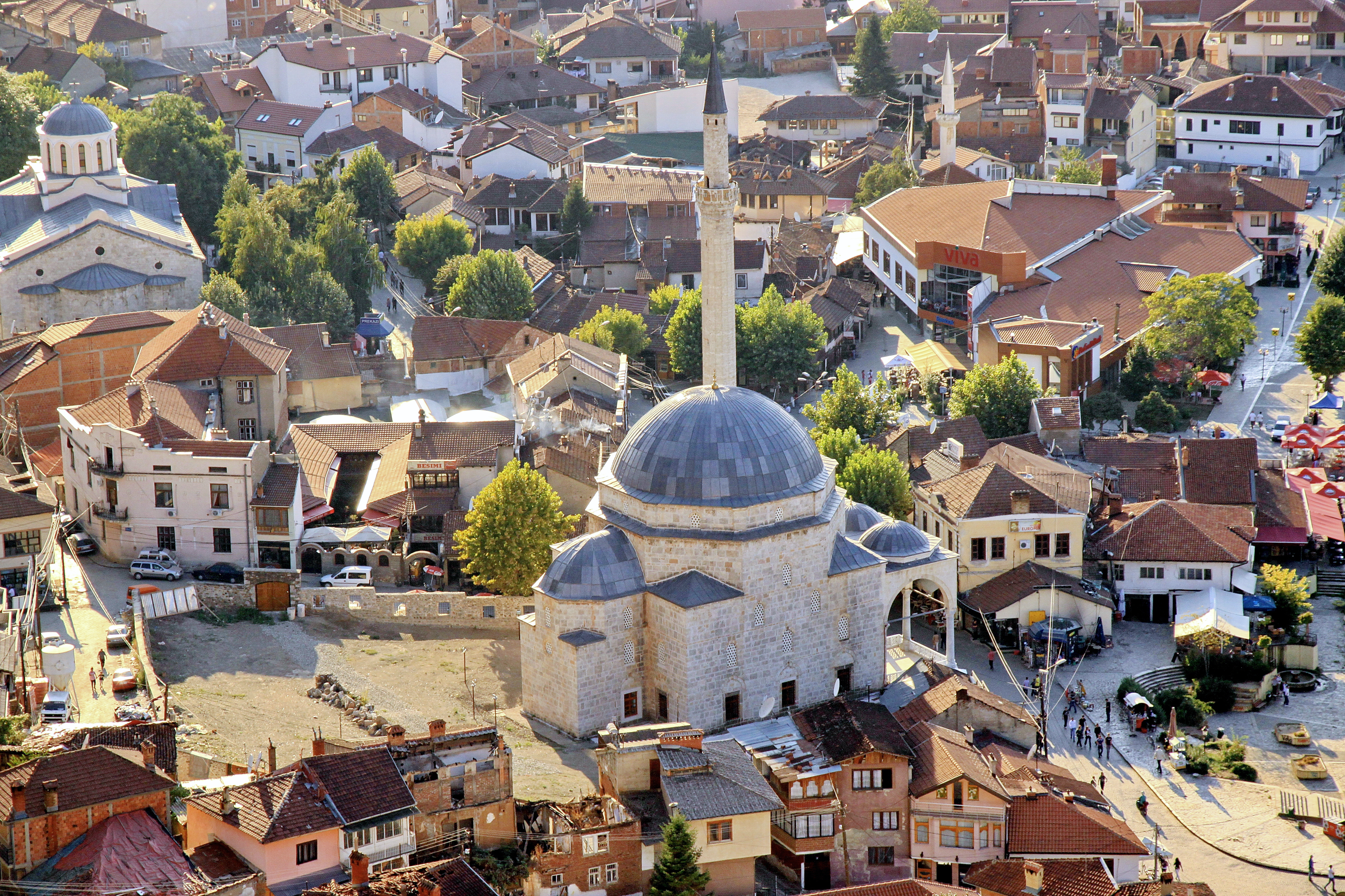 Sinan Pasha mosque. Prizren, KosovoTürkçe: Sinan Paşa Camii. Prizren, Kosova